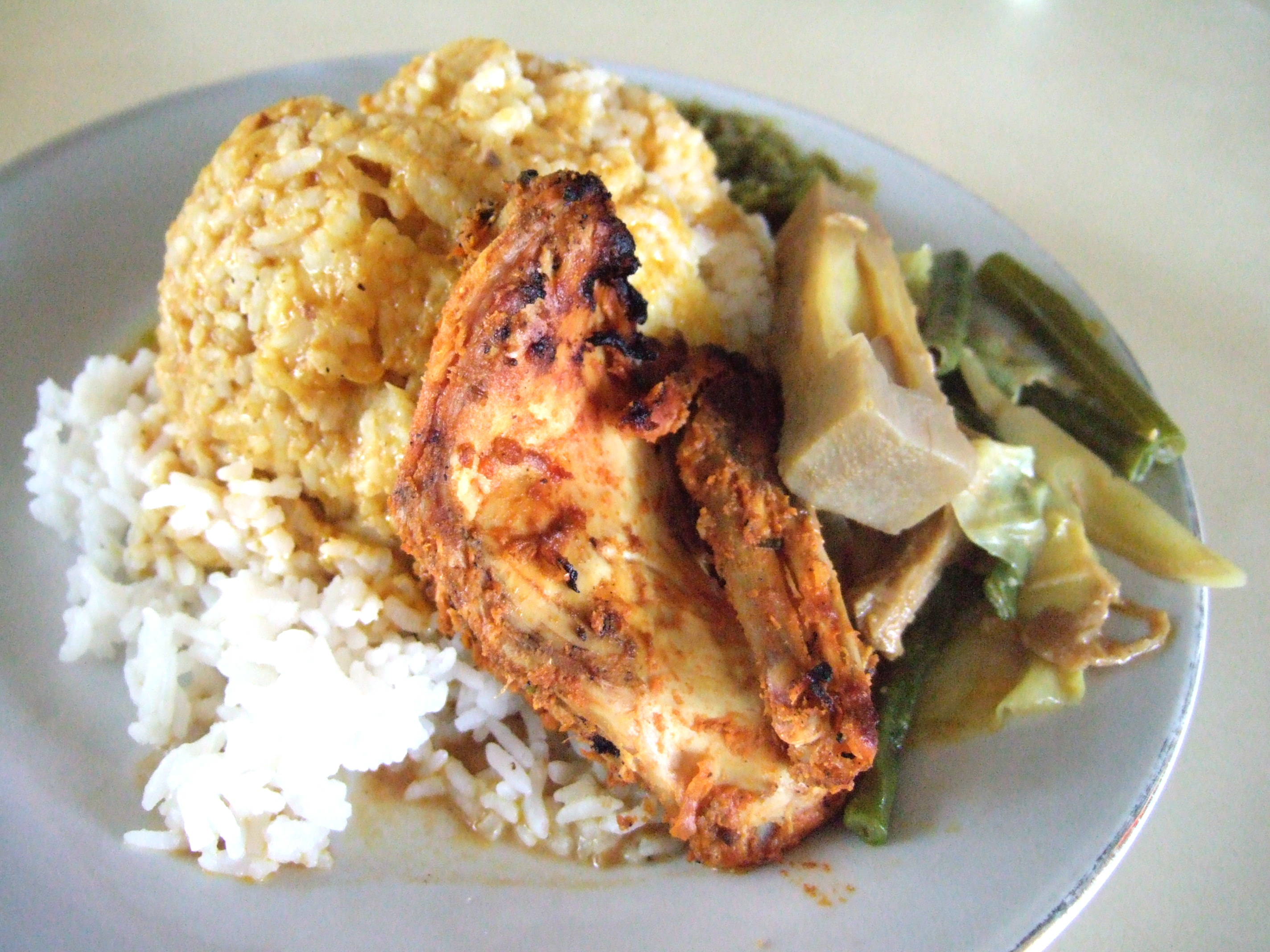 Nasi ramas with grilled spicy chicken